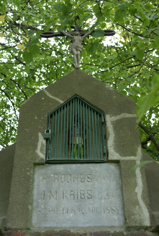 National monument no. 28030 - Sint-Rochuskapel (Sint-Pietersberg), Maastricht, The Netherlands.